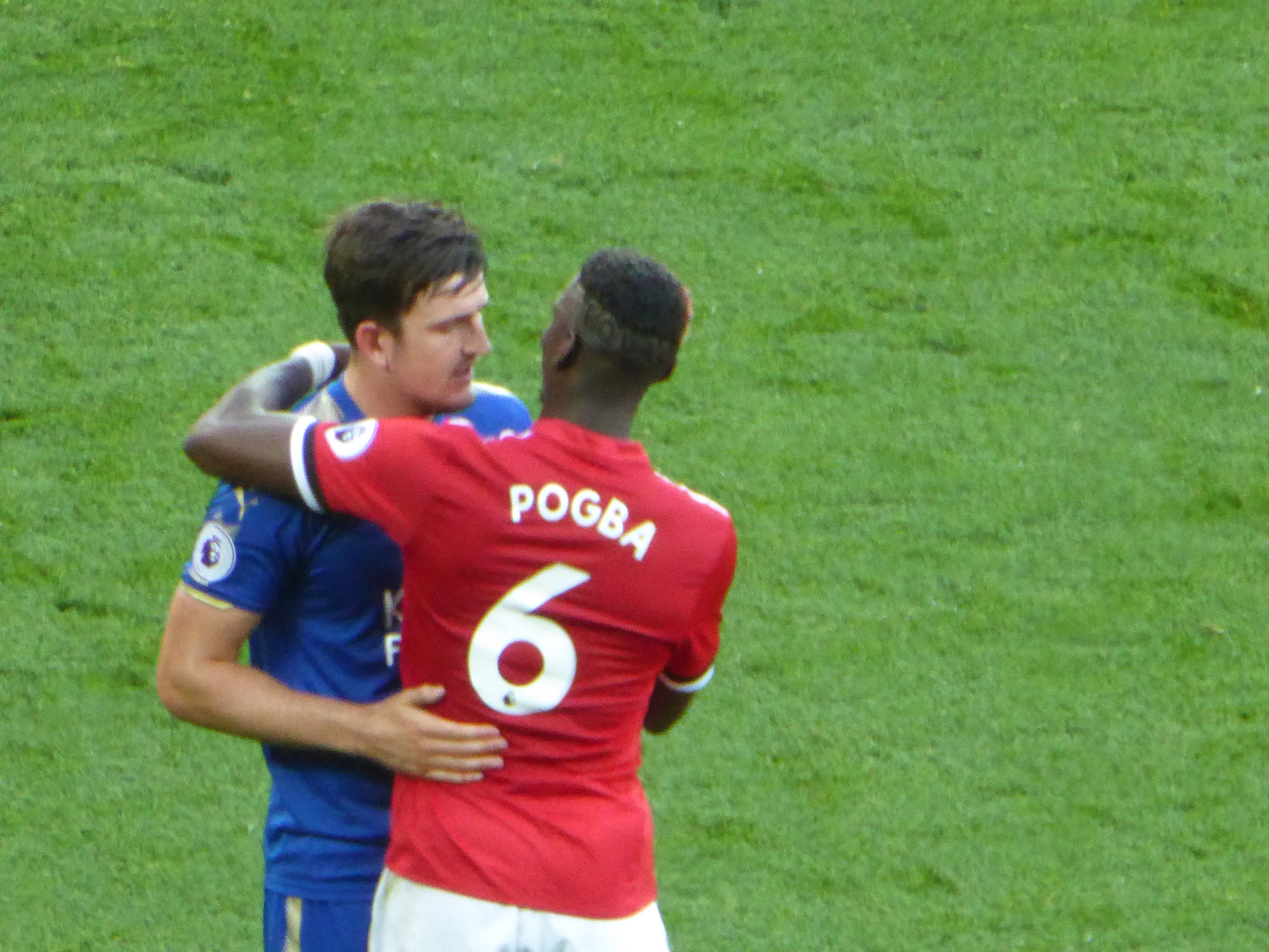 Manchester United v Leicester City (2-0), Premier League, Old Trafford, Manchester, Greater Manchester, England, 26 August 2017